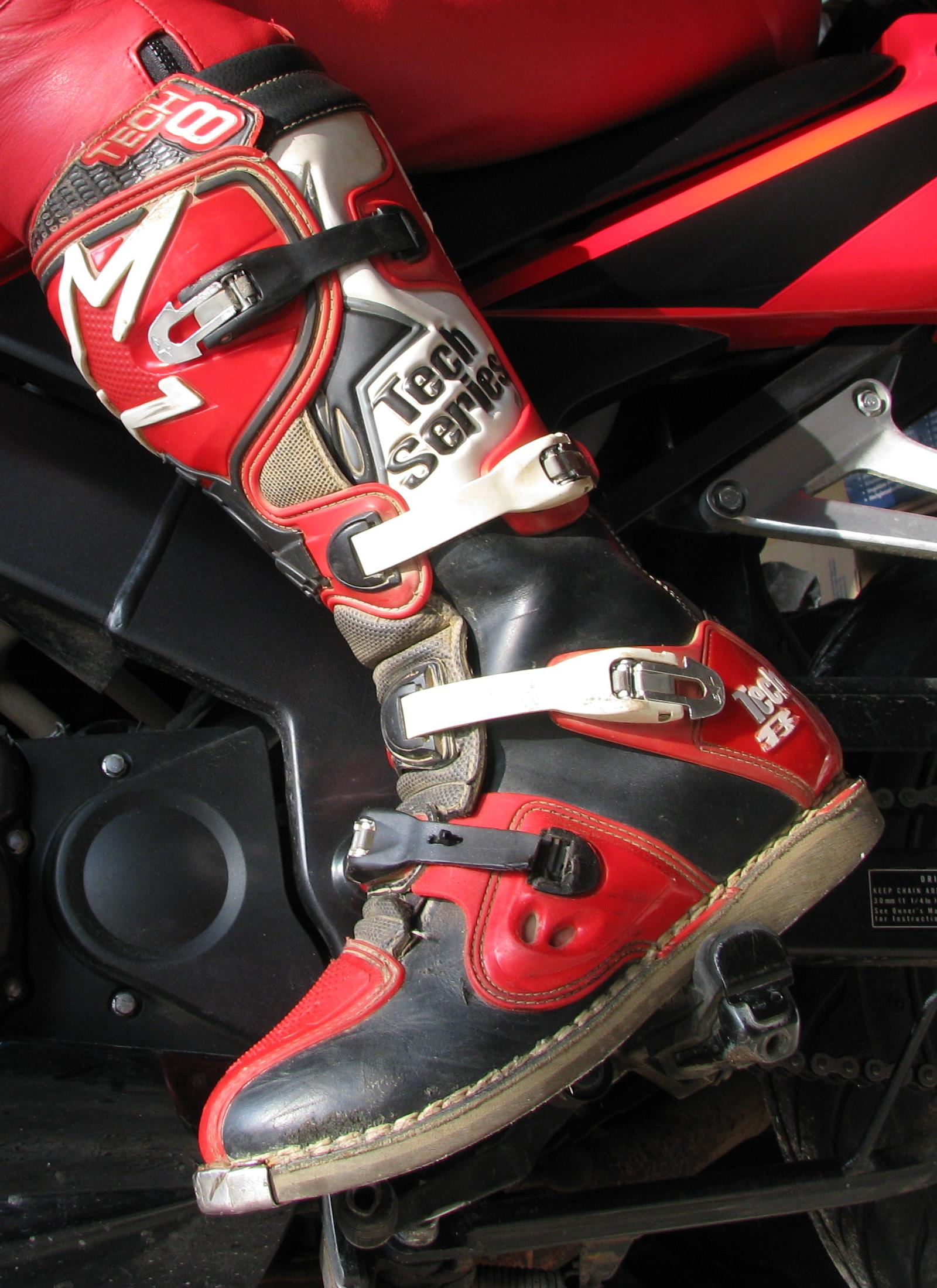 A red Alpinestars Tech 8 motocross boot. The stiff leather and plastic construction helps protect the rider from injury. The low heel of the boot grips the foot-rest while the toe presses on the gear-shift lever to change down a gear.